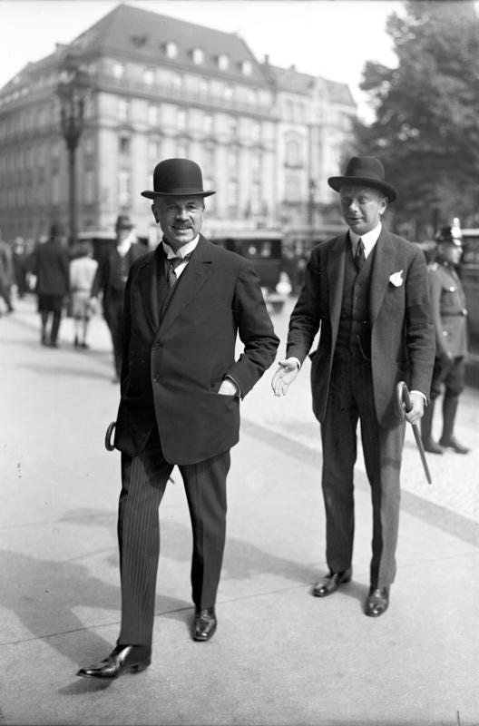 Despite the image name and title on this photo is not Georg von Rheinbaben but Werner von Rheinbaben is depicted next to Oskar Hergt.